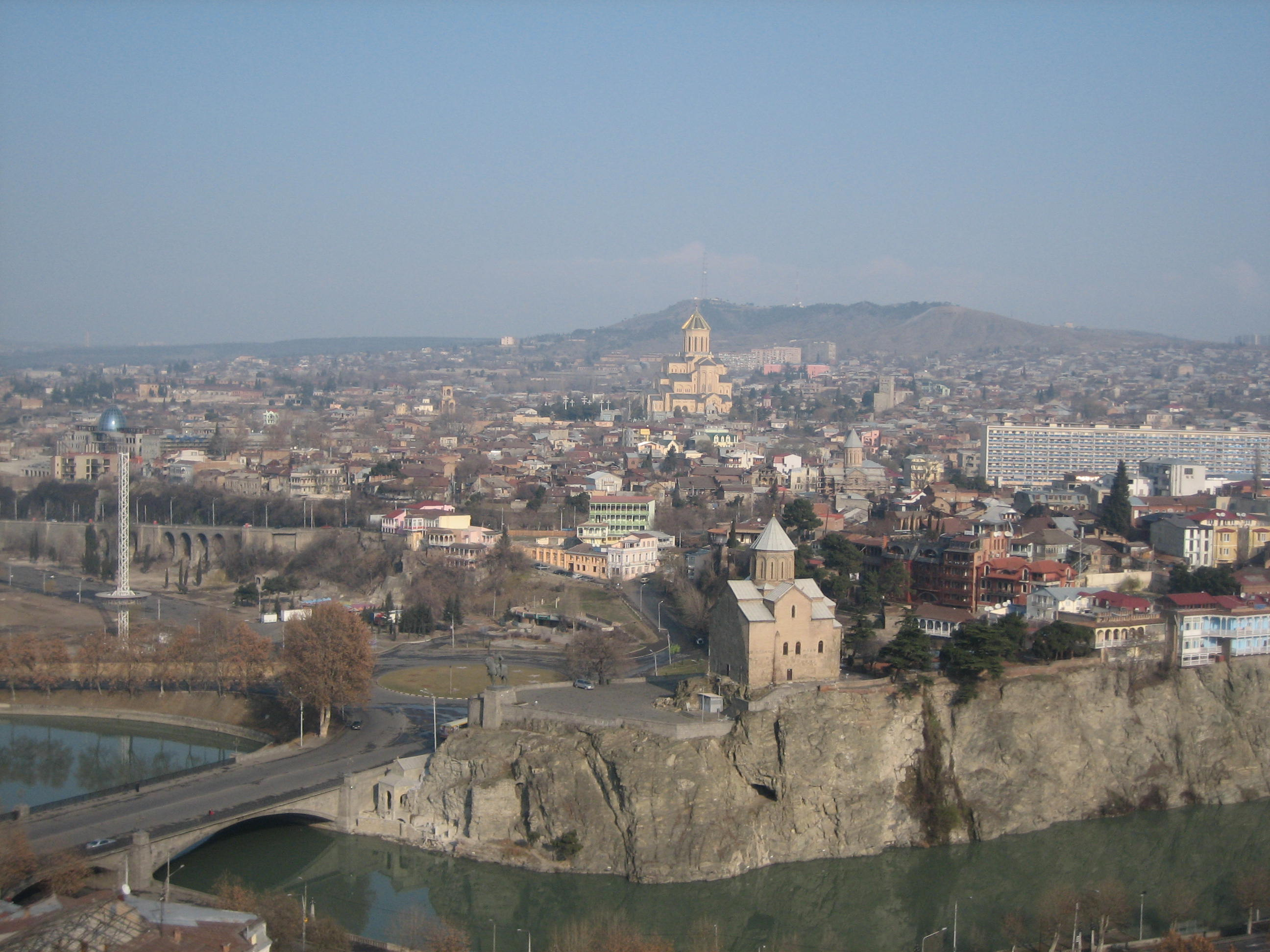 Panoramic view of Tbilisi